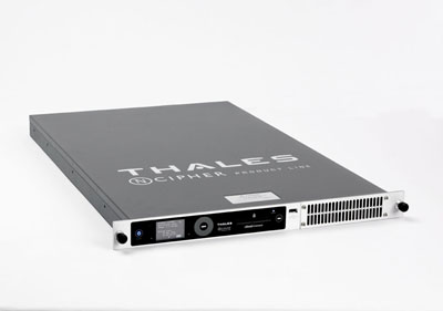 Thales nShield Connect 6000 hardware security module